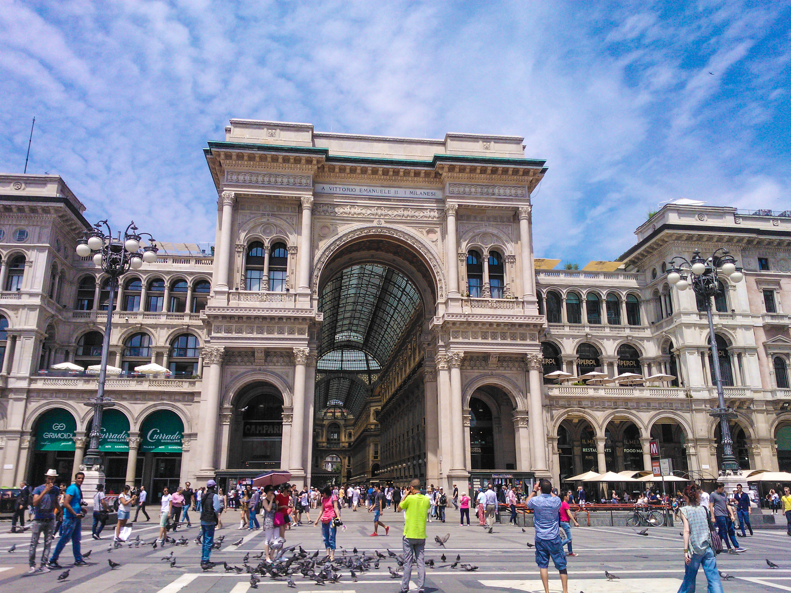 Entrance of Galleria Vittorio Emanuele II